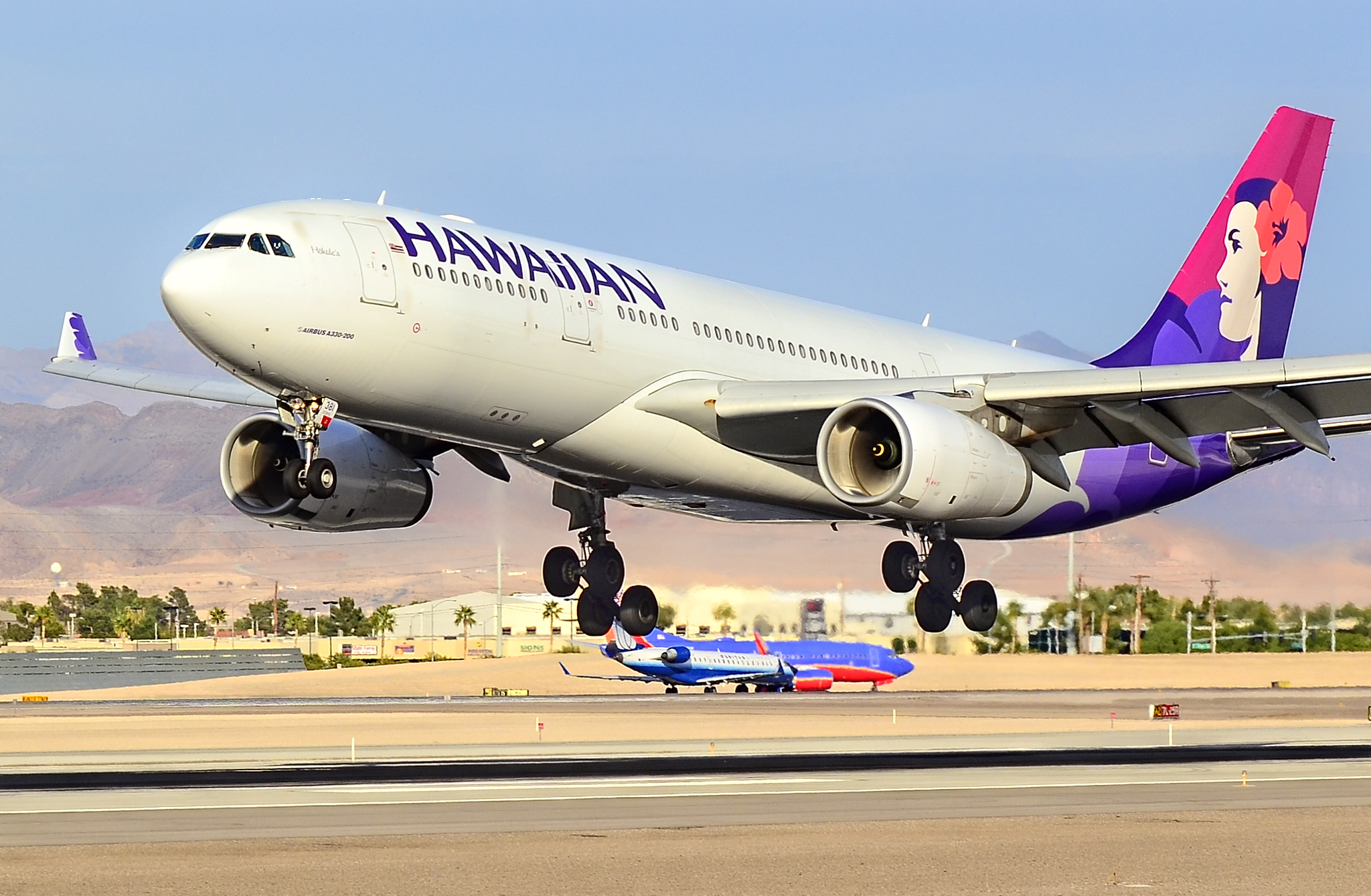 Las Vegas - McCarran International (LAS / KLAS) USA - Nevada, October 23, 2013 Photo: Tomás Del Coro